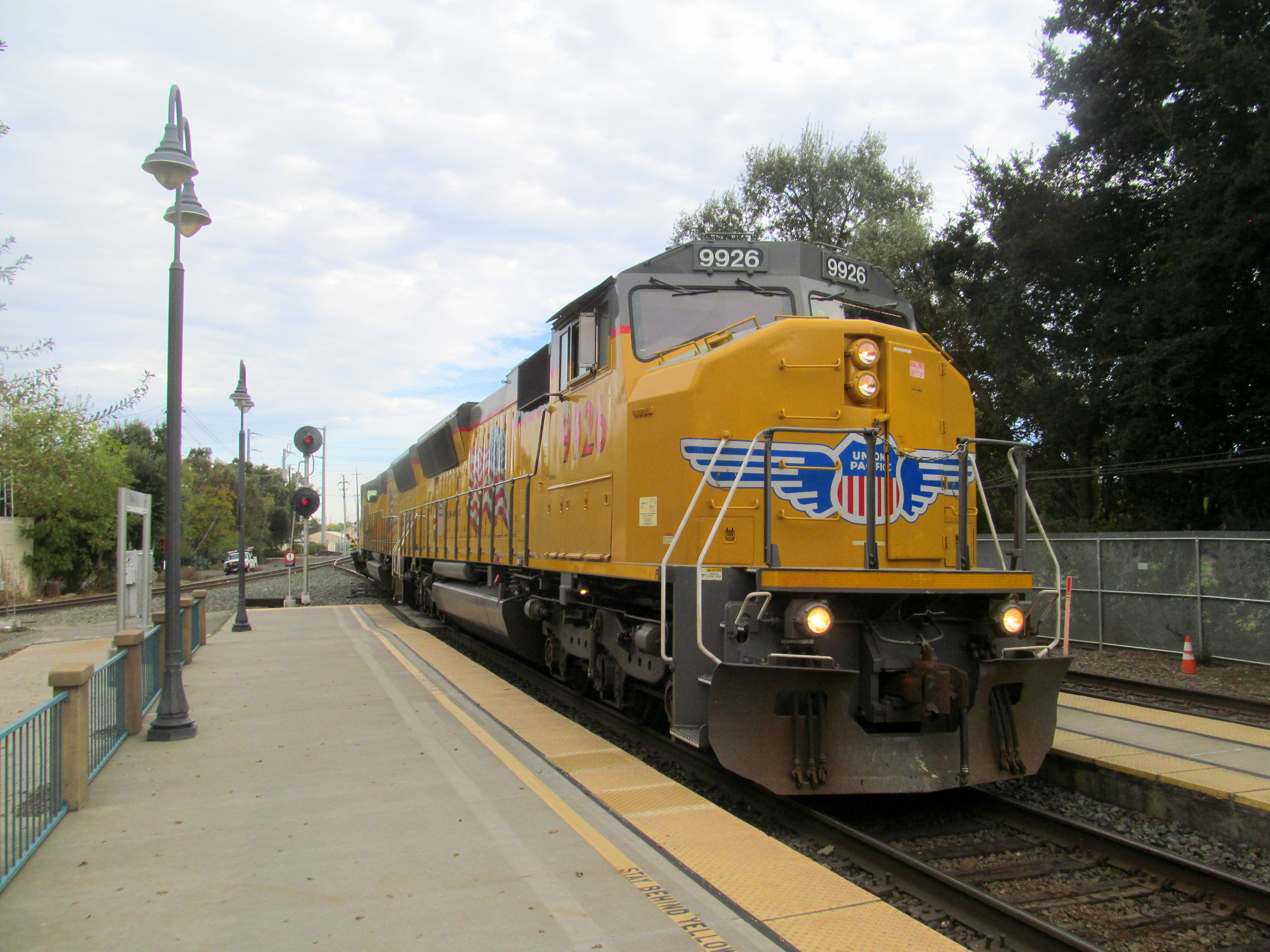 Union Pacific locomotives running light at Davis station in November 2017. UP locomotives use the crossover at the east end of the station to swap between tracks of the yard east of the station. The lead locomotive is EMD SD59MX #9926.